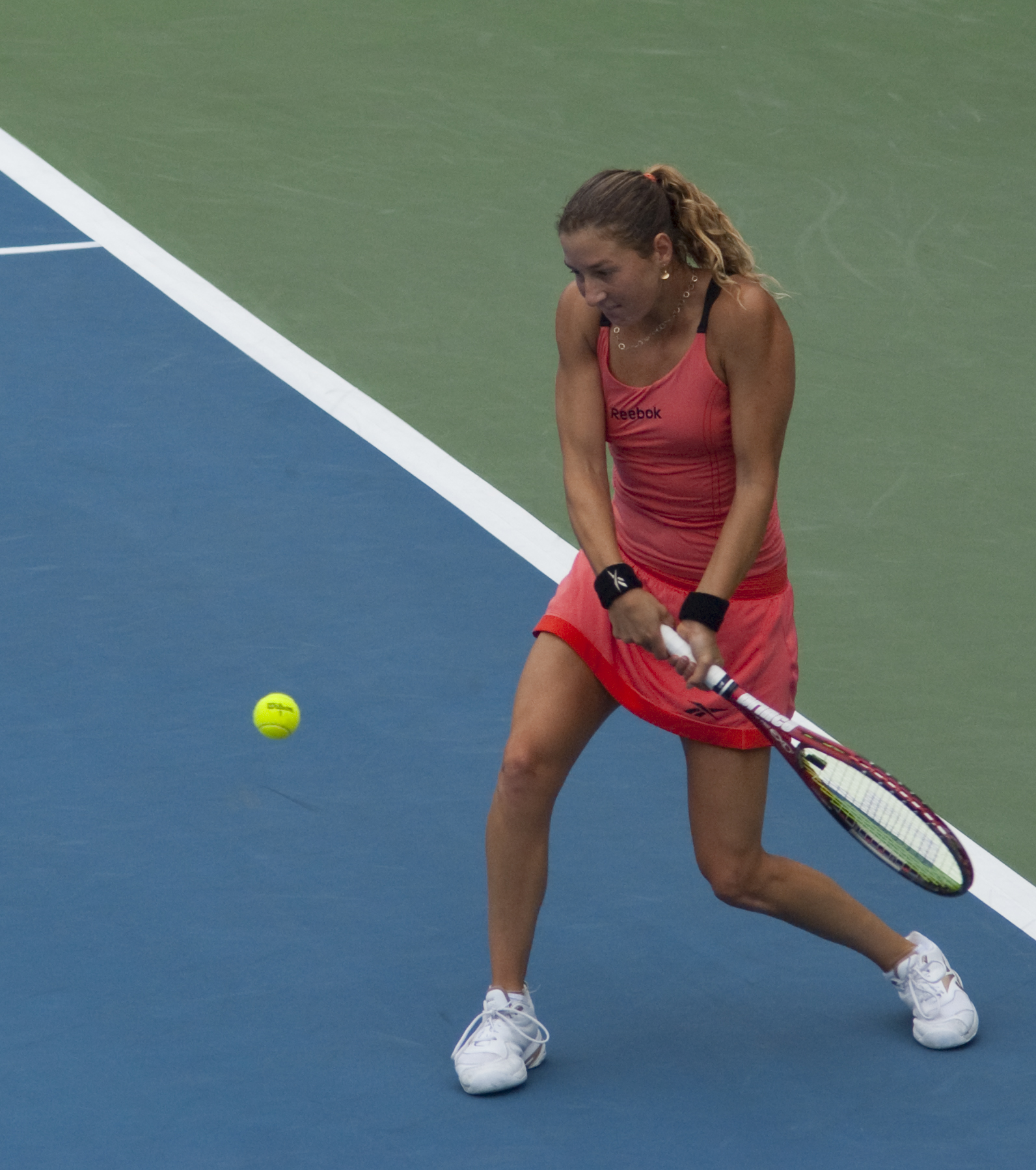 Semis-Day for ASB Classic 2010 Friday, January 8 Centre Court Noon Singles SF - 3-WC Yanina Wickmayer (BEL) bt Shahar Peer (ISR) 6-4 7-5